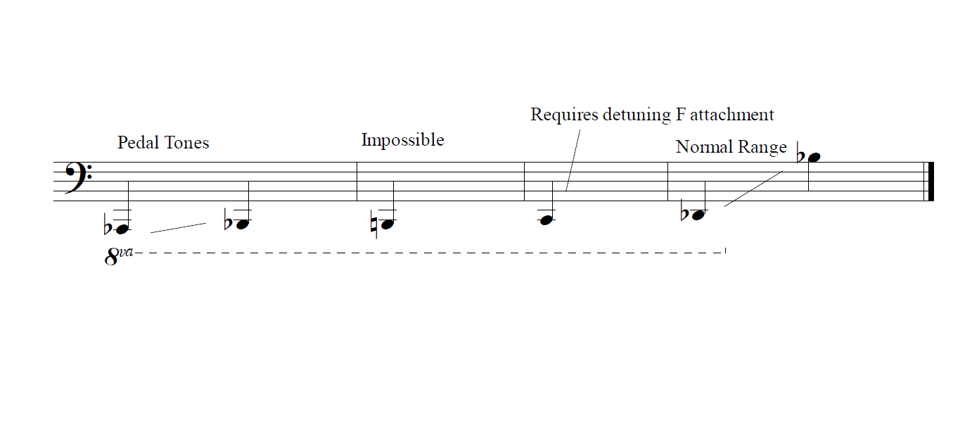 Range of the B♭ Contrabass Trombone. Low B0 is impossible with only an F-attachment, though special modifications with additional valves do exist. Low C1 is extremely sharp, requiring special technique to play or the detuning of the F-attachment prior to performance of it.